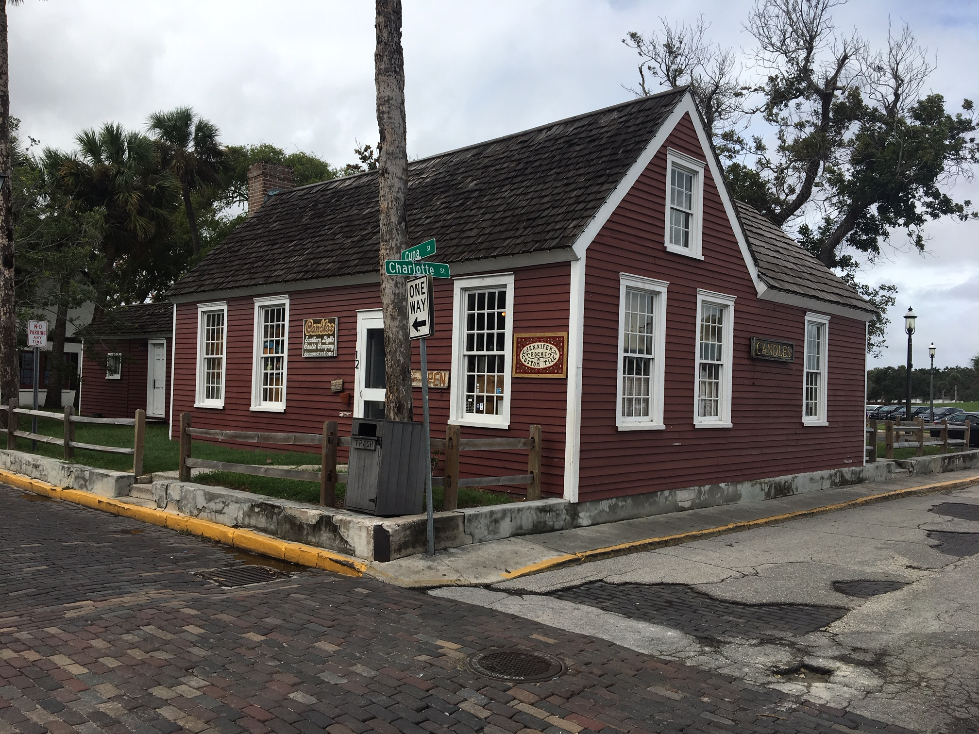 Sims Silversmith Shop as it appears in 2018 (now a candle shop)